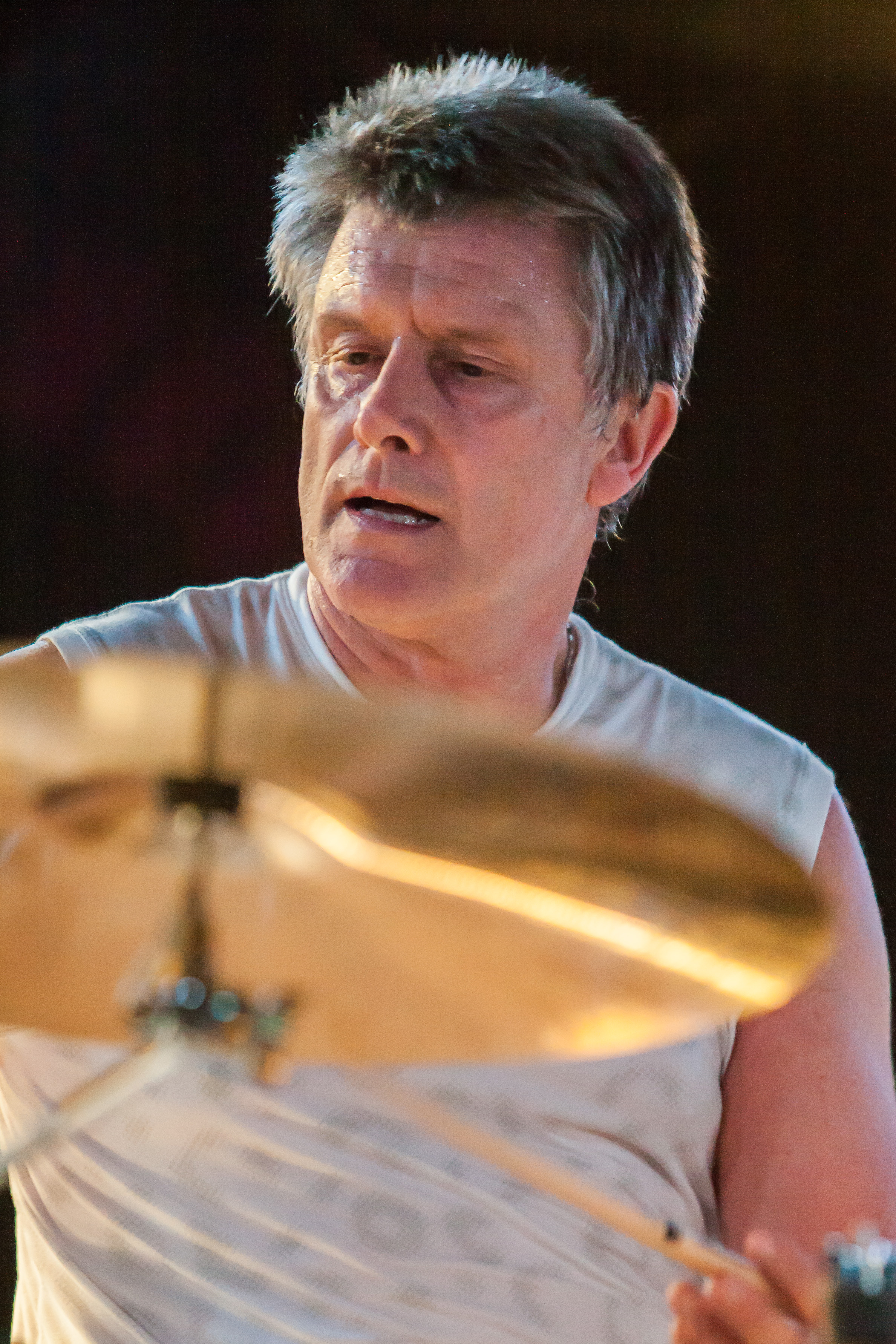 Carl Palmer on stage